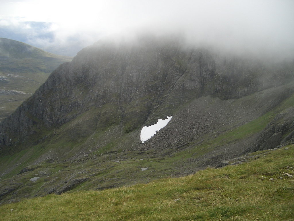 Aonach Beag in cloud